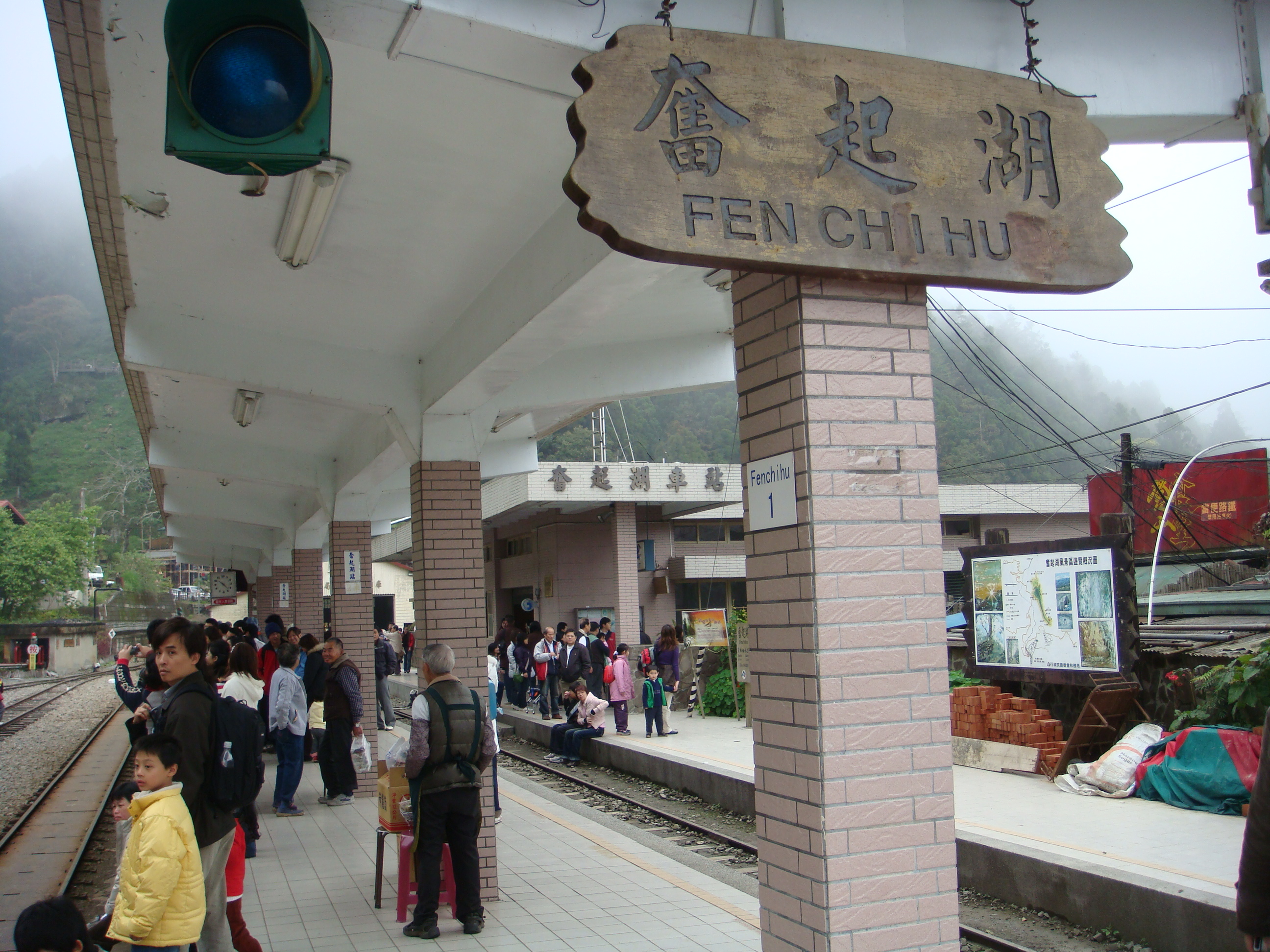 Alishan Forest Railway Fenchihu Station 阿里山森林鐵路奮起湖車站